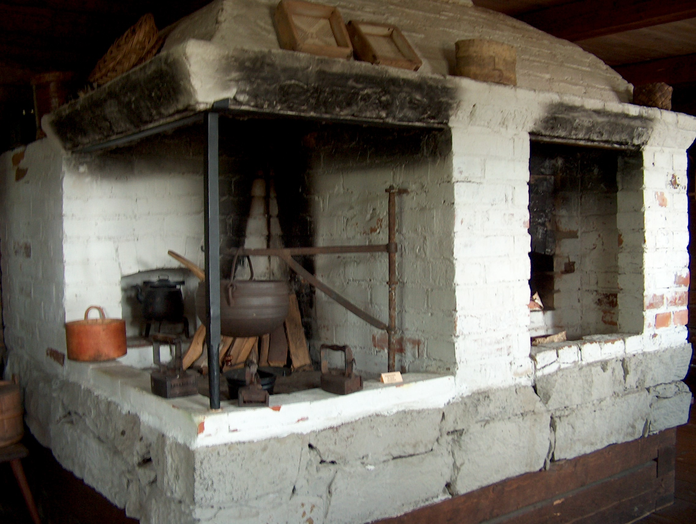 The fireplace in the childhood home of Aleksis Kivi, the national writer of Finland